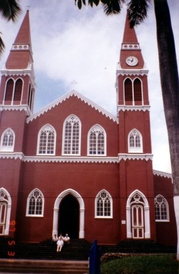 This is a picture of the metal church in Grecia, Costa Rica.